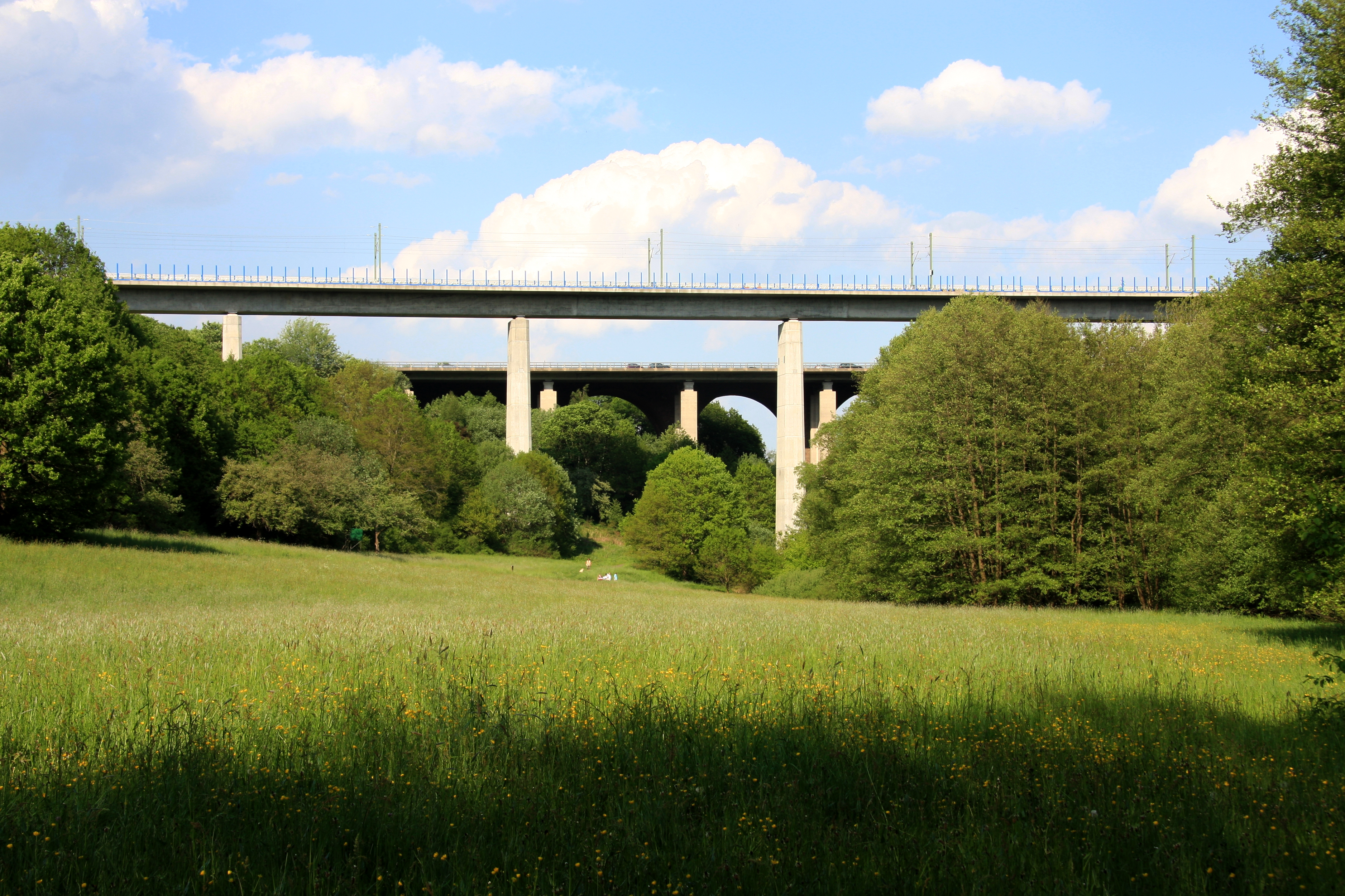 The Theiß valley brigde near Niedernhausen